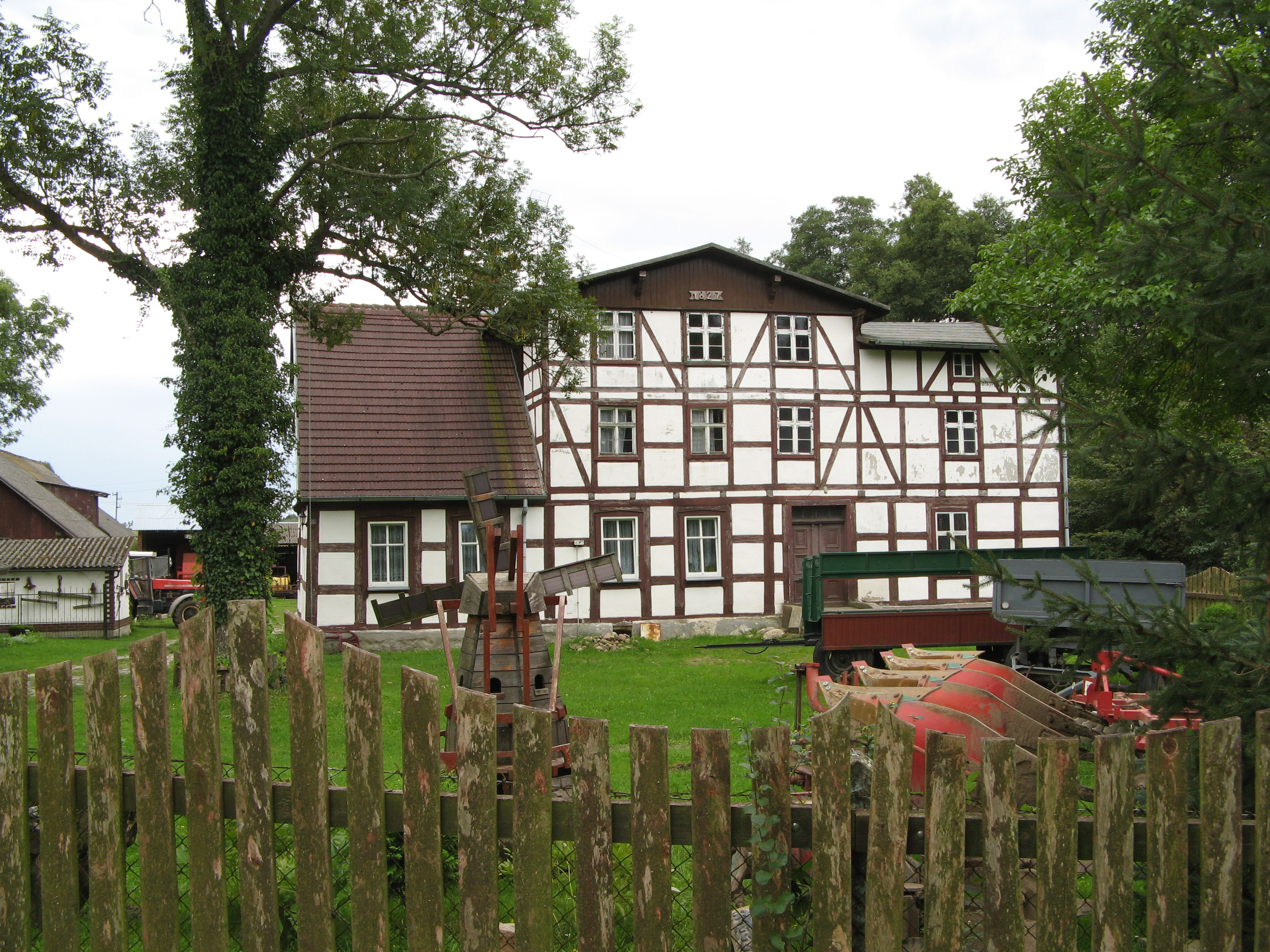 Mill of Suchanówko, Poland (before 1945 german Schwanenbeck, Pommern